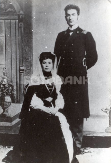 Muslim and Baydigul Magomayevs in 1906